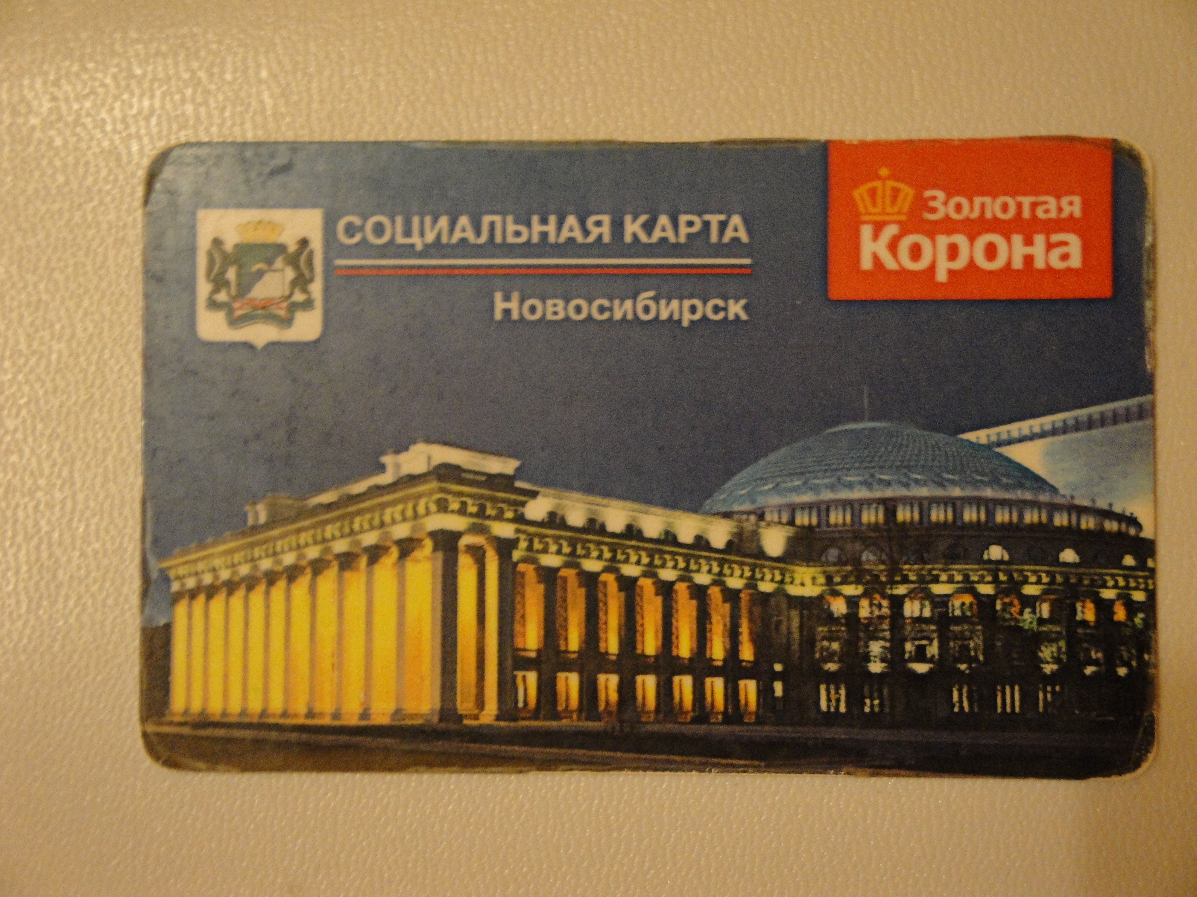 E-Card for pass to Novosibirsk transport ("ETK Social card")